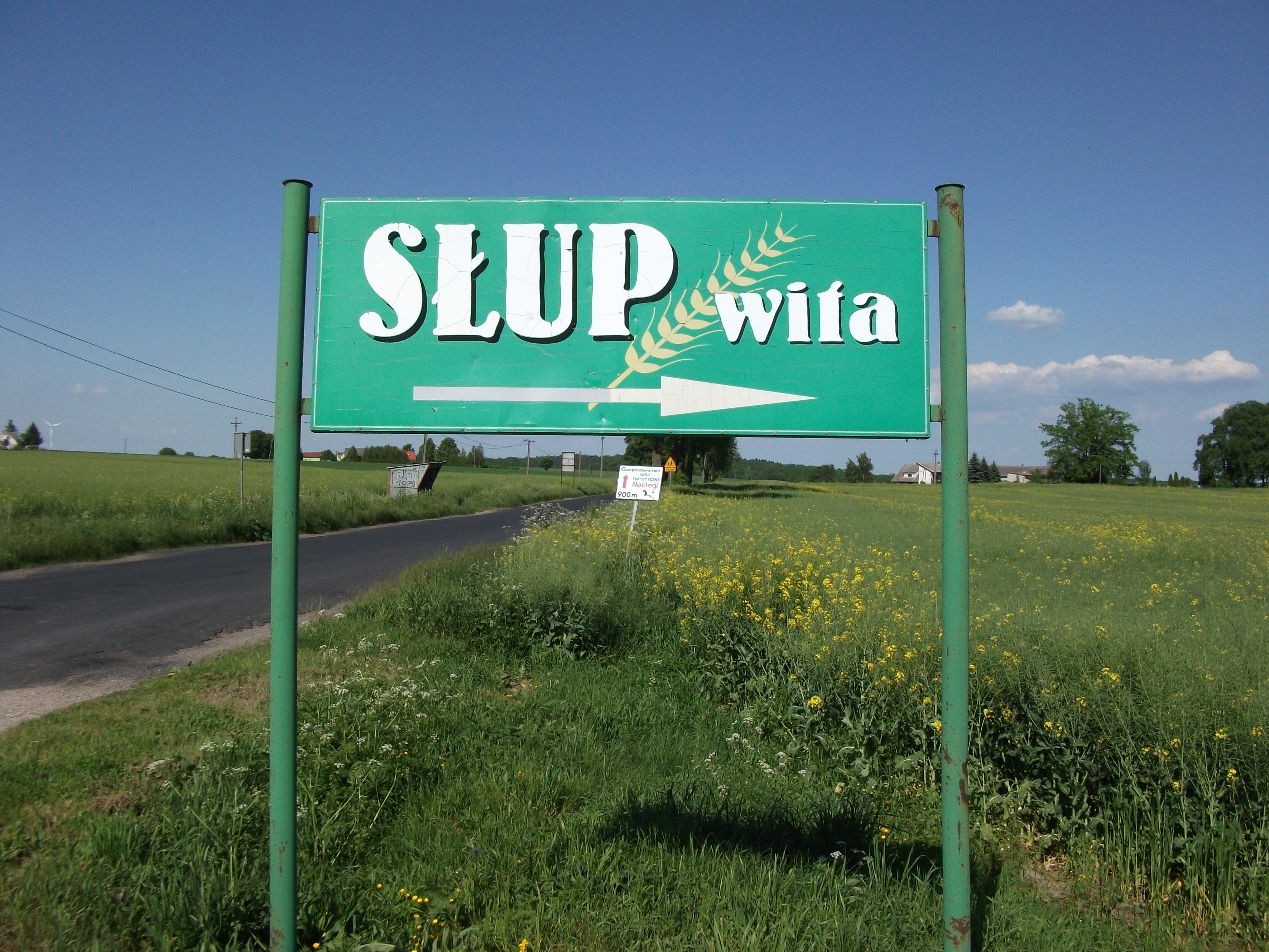 Słup; Grudziądz county